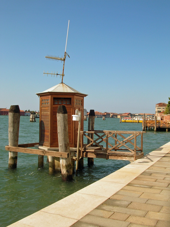 Hydrografic station at Punta della Salute (located there since end of 19th century)